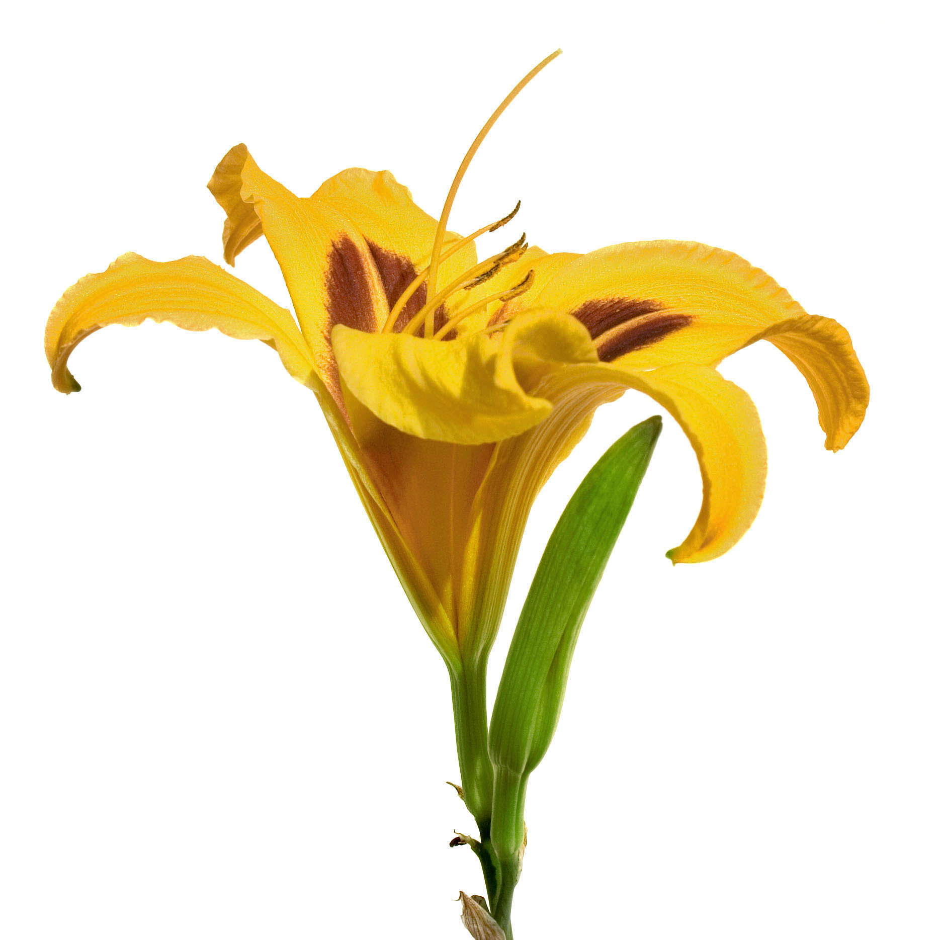 Hemerocallis 'Mikado' - white background